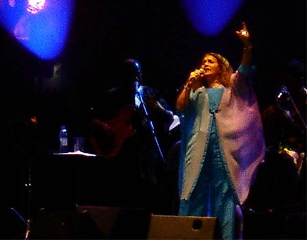 Attribution must be provided with a Photo Credit to Edgar Fernández Rodríguez Derivative Work created by : Hugh Pickens